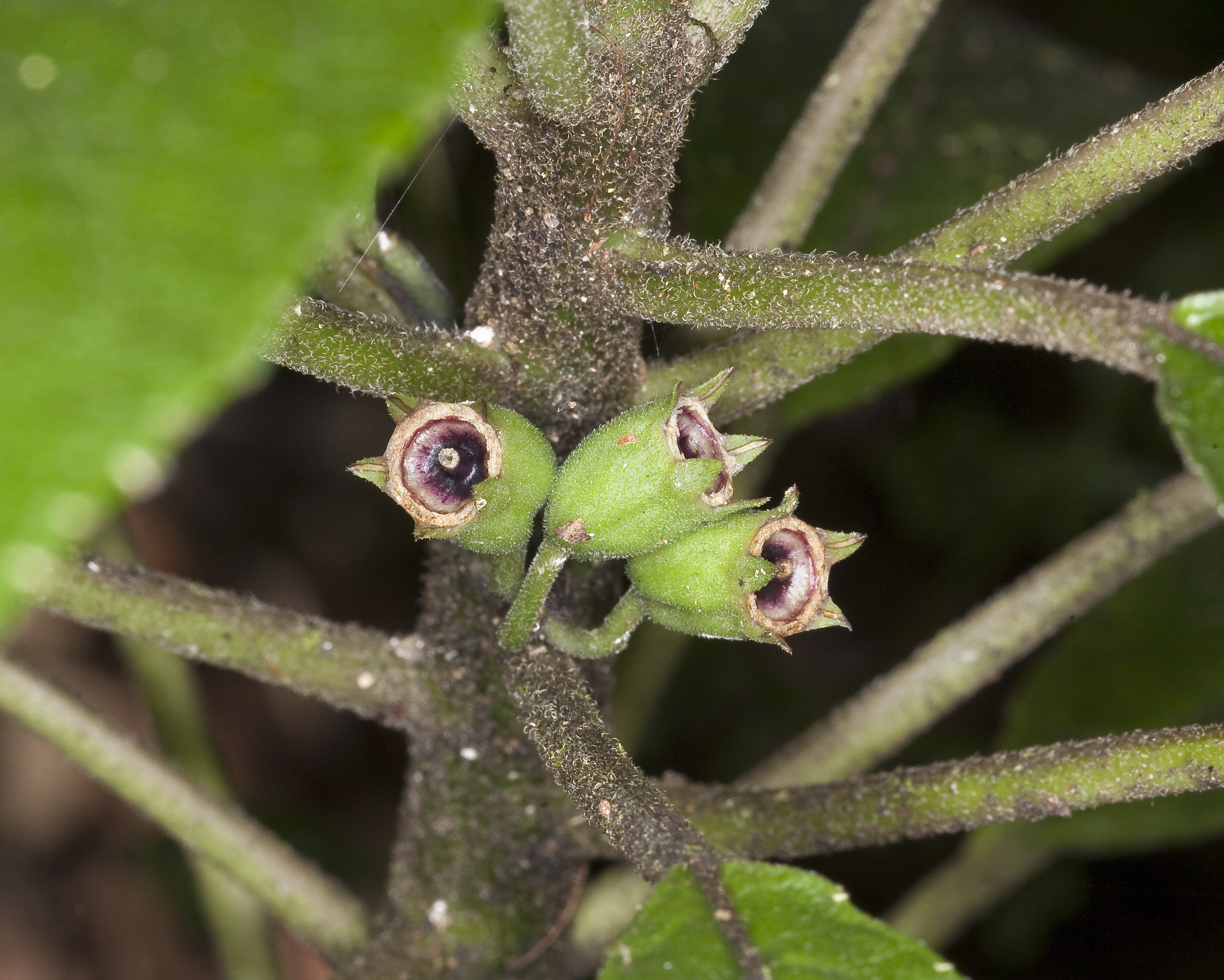 Cyanea hirtella (rustyleaf cyanea). Closer view of fruit from a single plant seen in fruit in dense forest along the Mohihi-Waialae trail, Kauai.